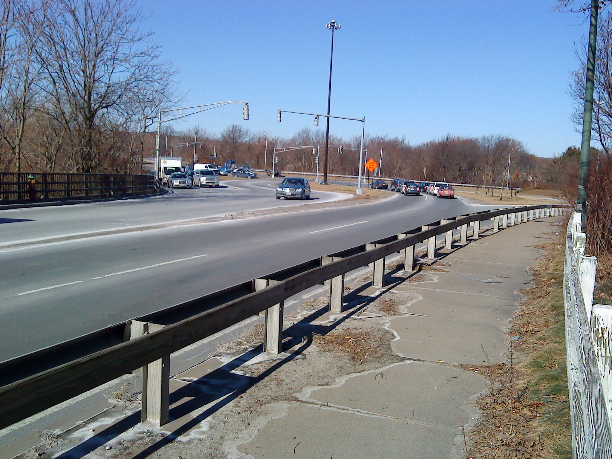 The junction of Route 2 (left), with Alewife Brook Parkway, Route 3, and Route 16 (sharp-right). It is located a stone's throw from Alewife Station and the Alewife Brook Reservation.